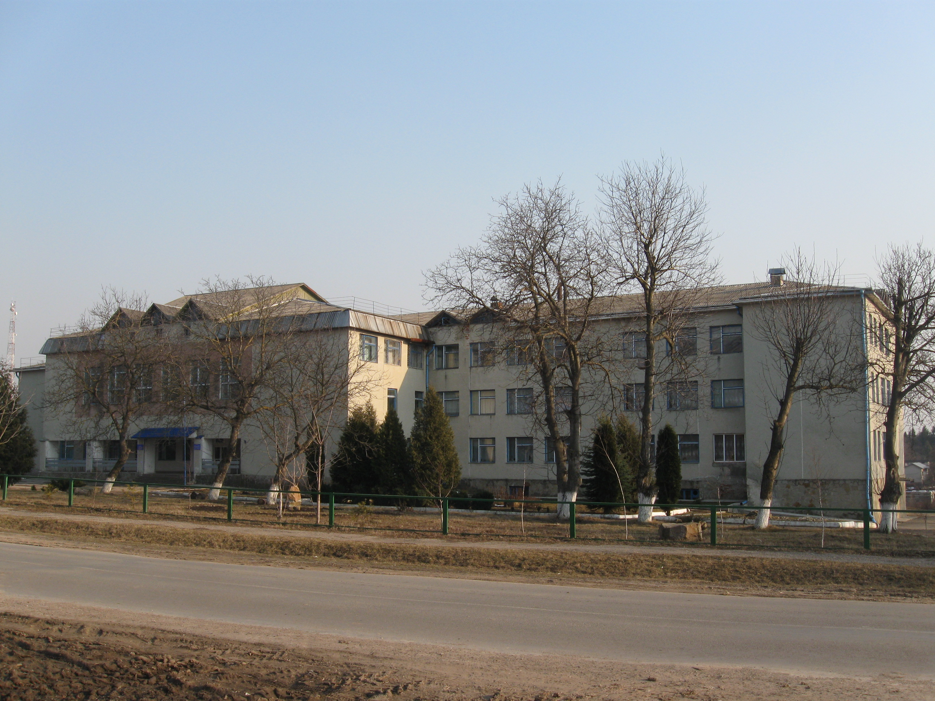 School №3 in Sady, Trembowla